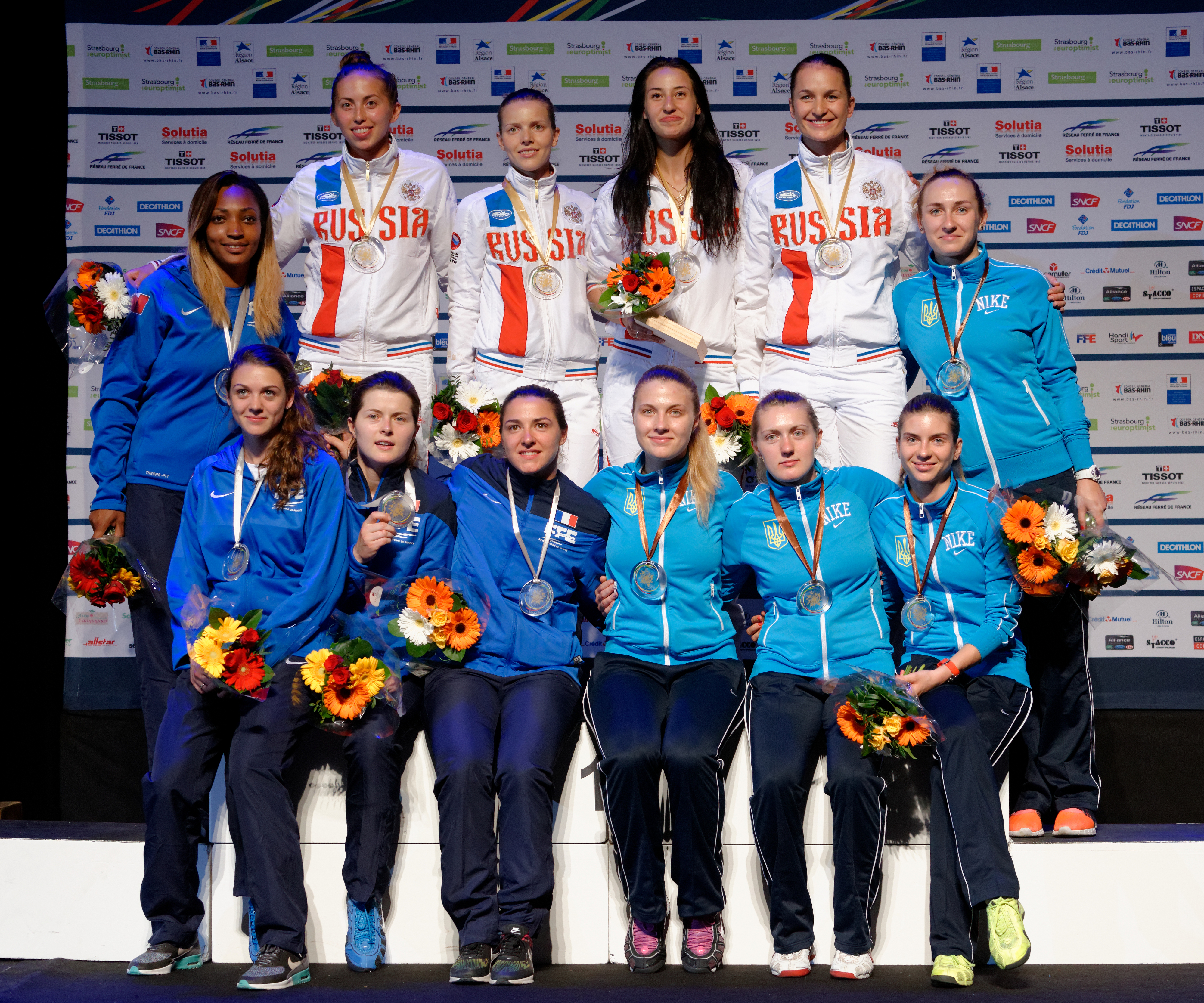 France (ine blue), Russia (in white), and Ukraine (in turquoise) at the award ceremony of the team women's sabre event at the European Fencing Championships at Rhénus Sport in Strasbourg on 13 June 2014.